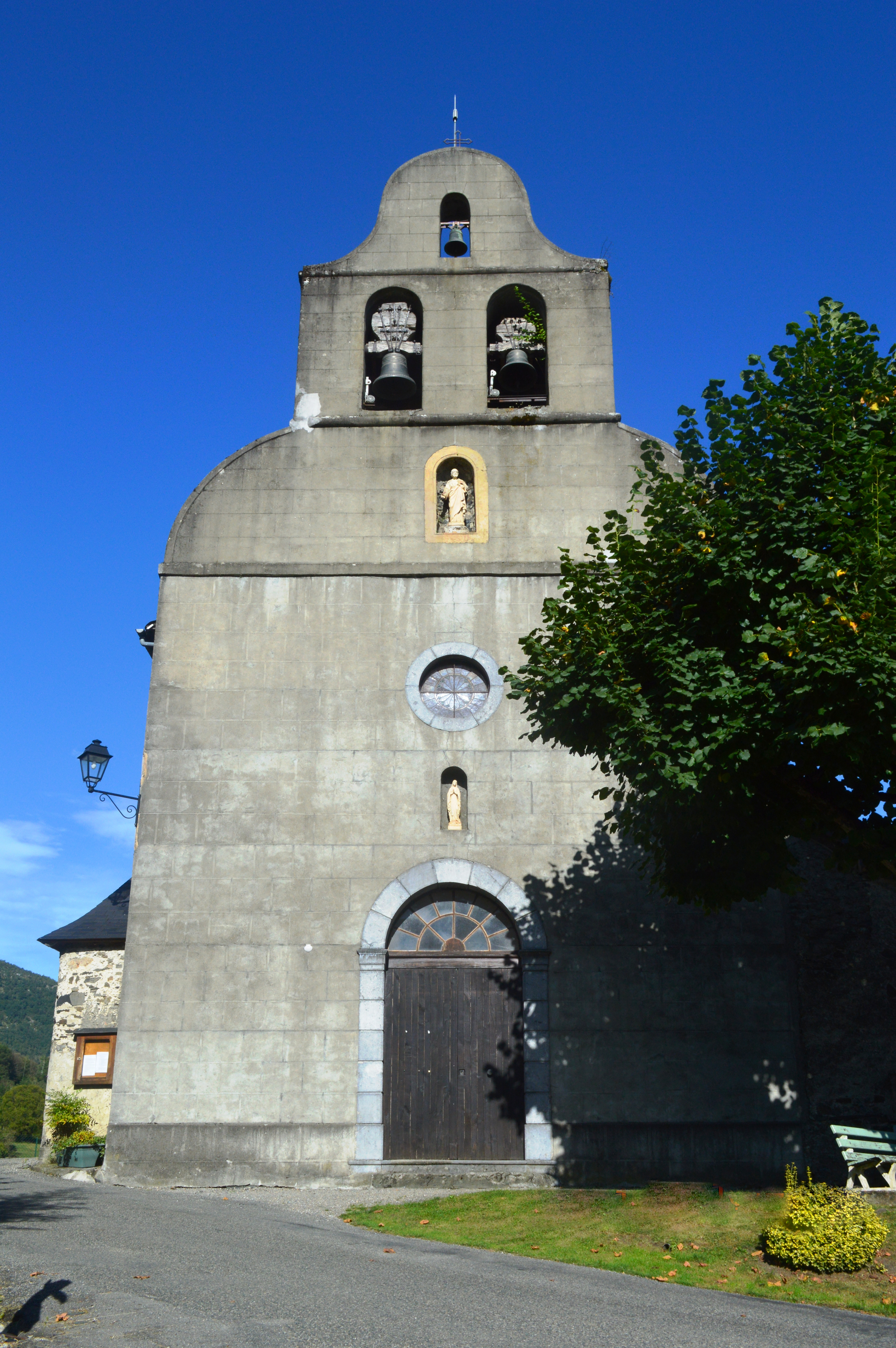 Arrout Saint-Peter Church